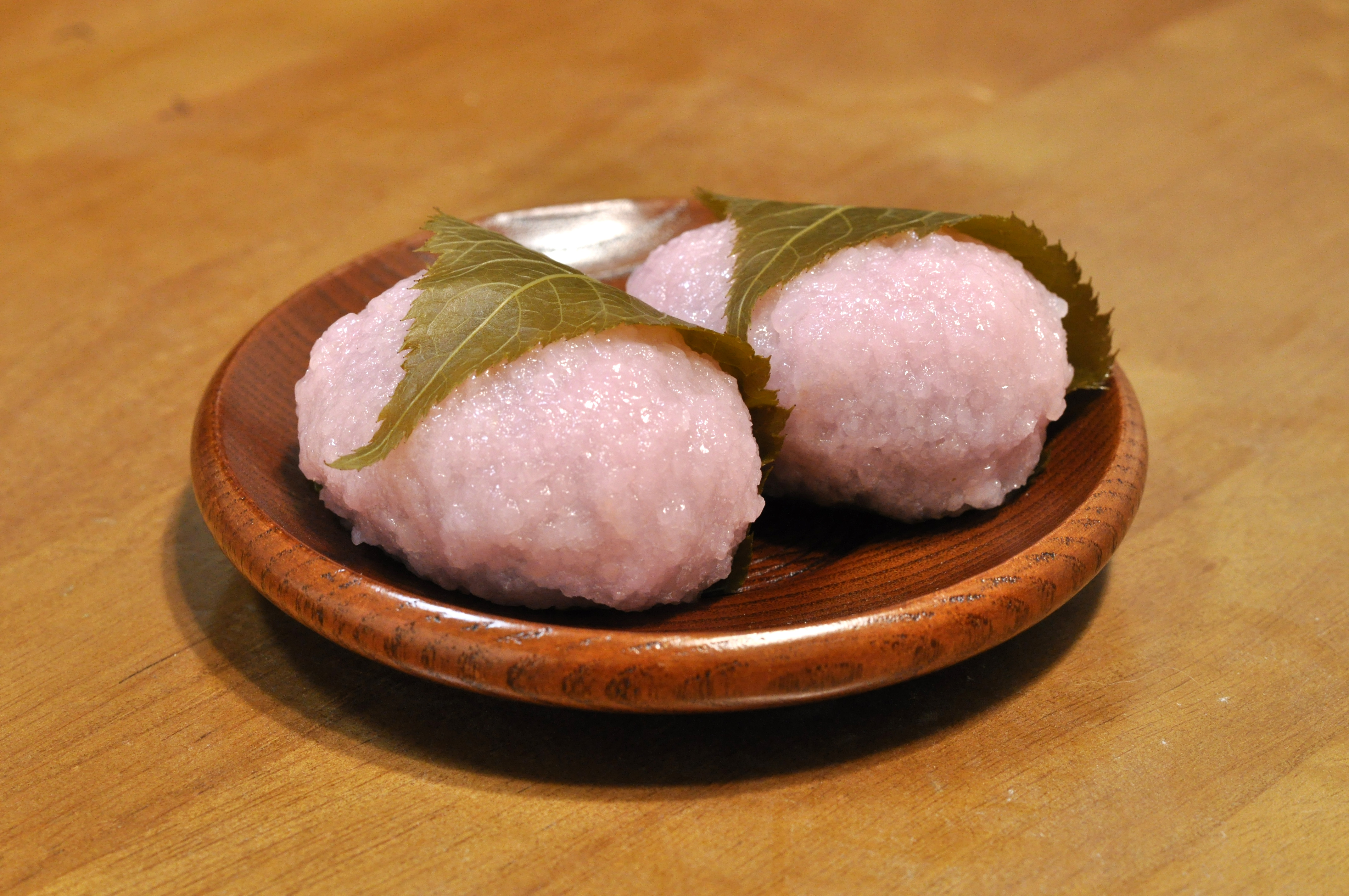 Doumyō-ji style sakura-mochi.